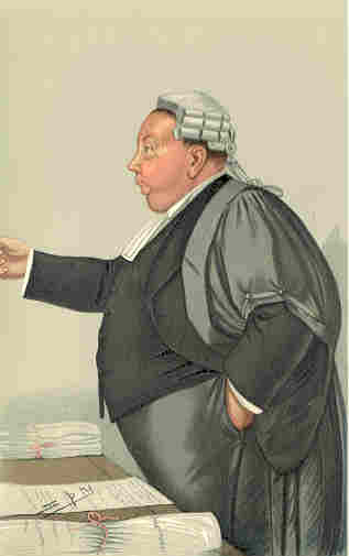 Caricature of William Otto Adolph Julius Danckwerts (1853-1914). Caption read "Danky".